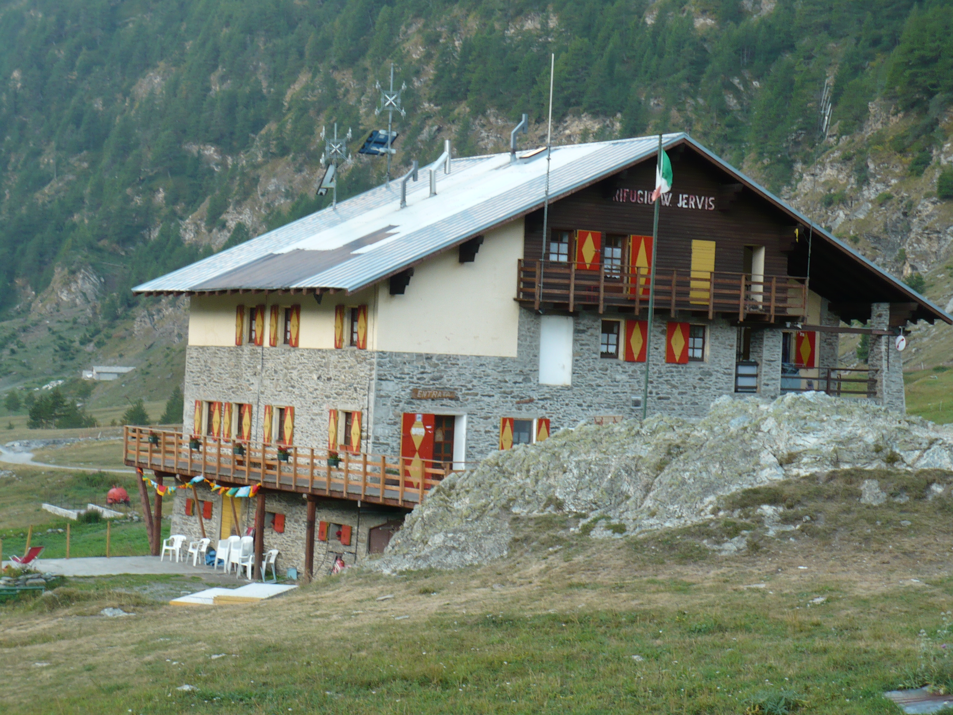 Rifugio Willy Jervis - Val Pellice - Cottian Alps - Italy